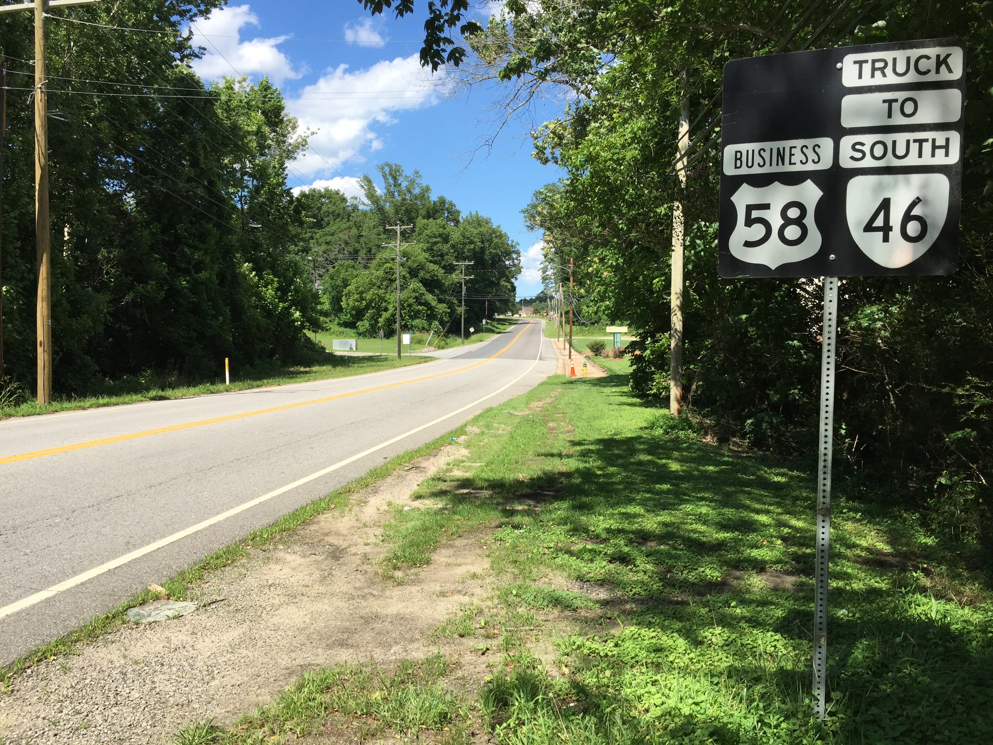 View east along U.S. Route 58 Business and south along Virginia State Route 46 Truck (Main Street) at Athletic Field Road in Lawrenceville, Brunswick County, Virginia